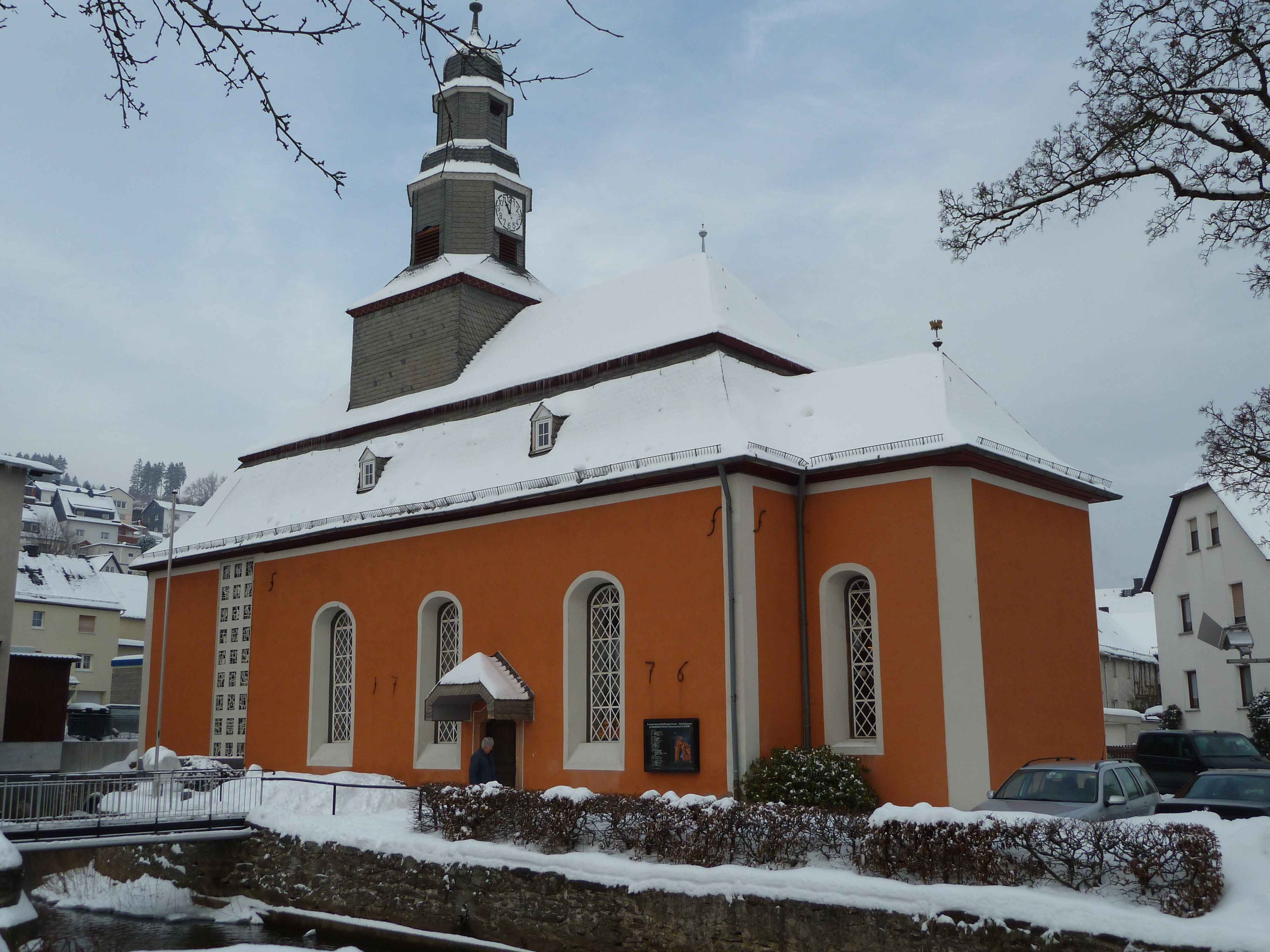 Protestant Church in Eibelshausen, Germany